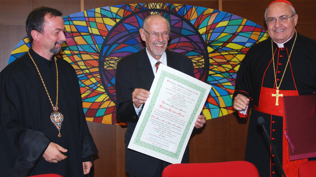 Carl Gerold Fürst, Award Ceremony Honorary Doctorate, Pontifical Oriental Institute in Rome (2010)